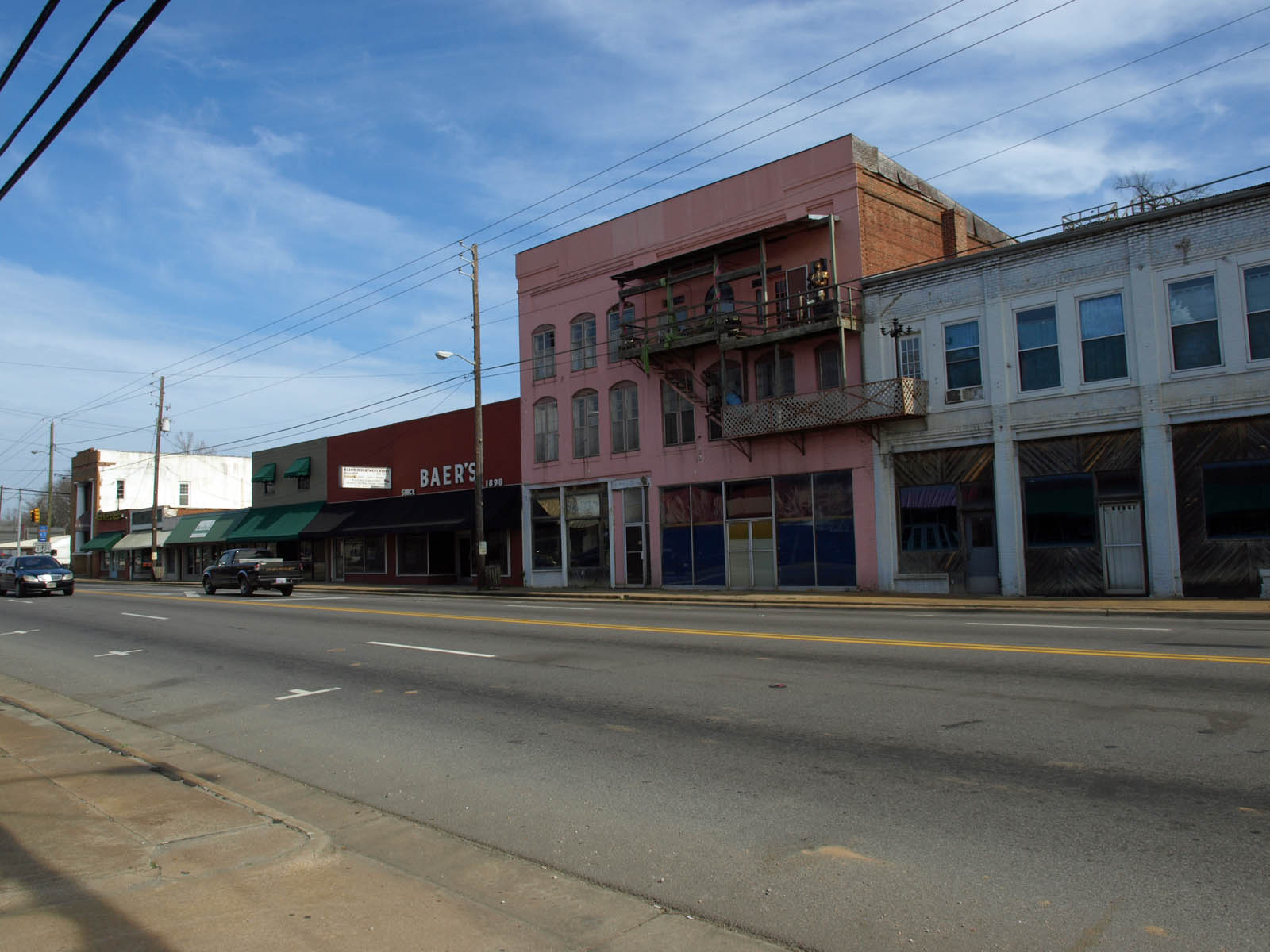 Buildings on Highway 31 in Calera, Alabama, part of the Calera Downtown Historic District